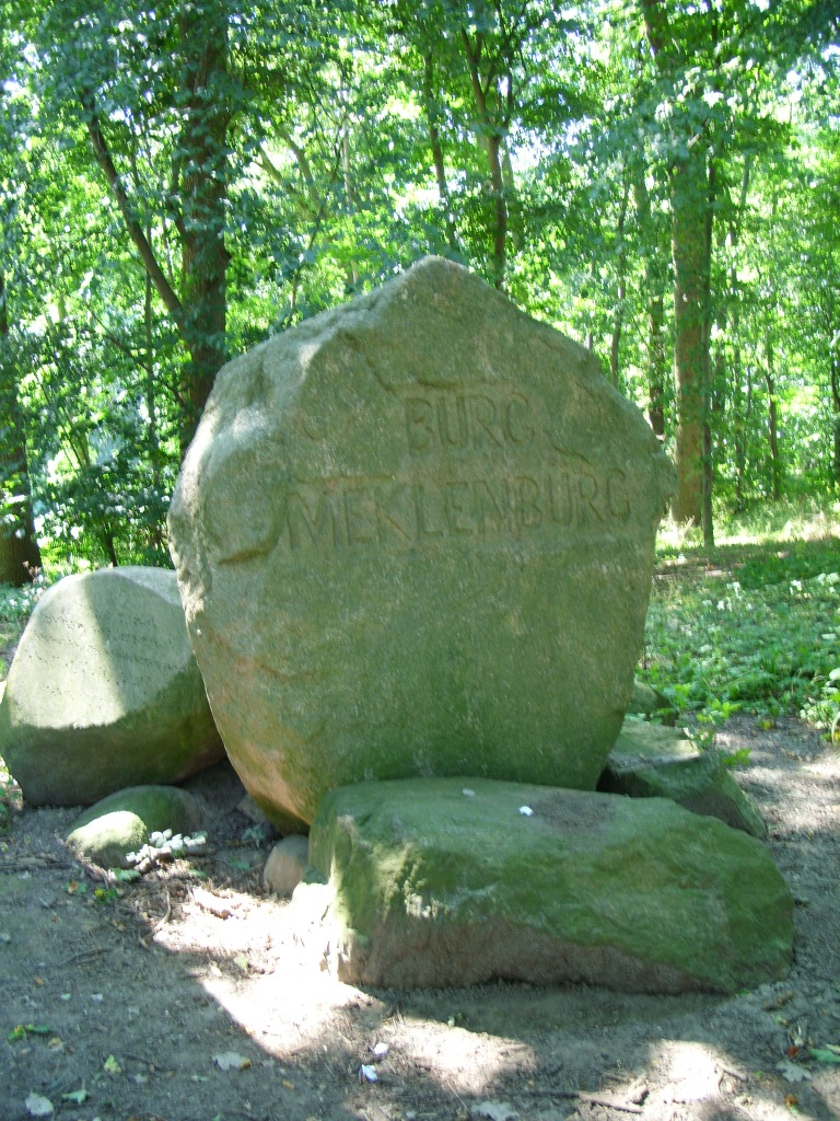 Memorial for Mecklenburg Castle in Dorf Mecklenburg, Germany